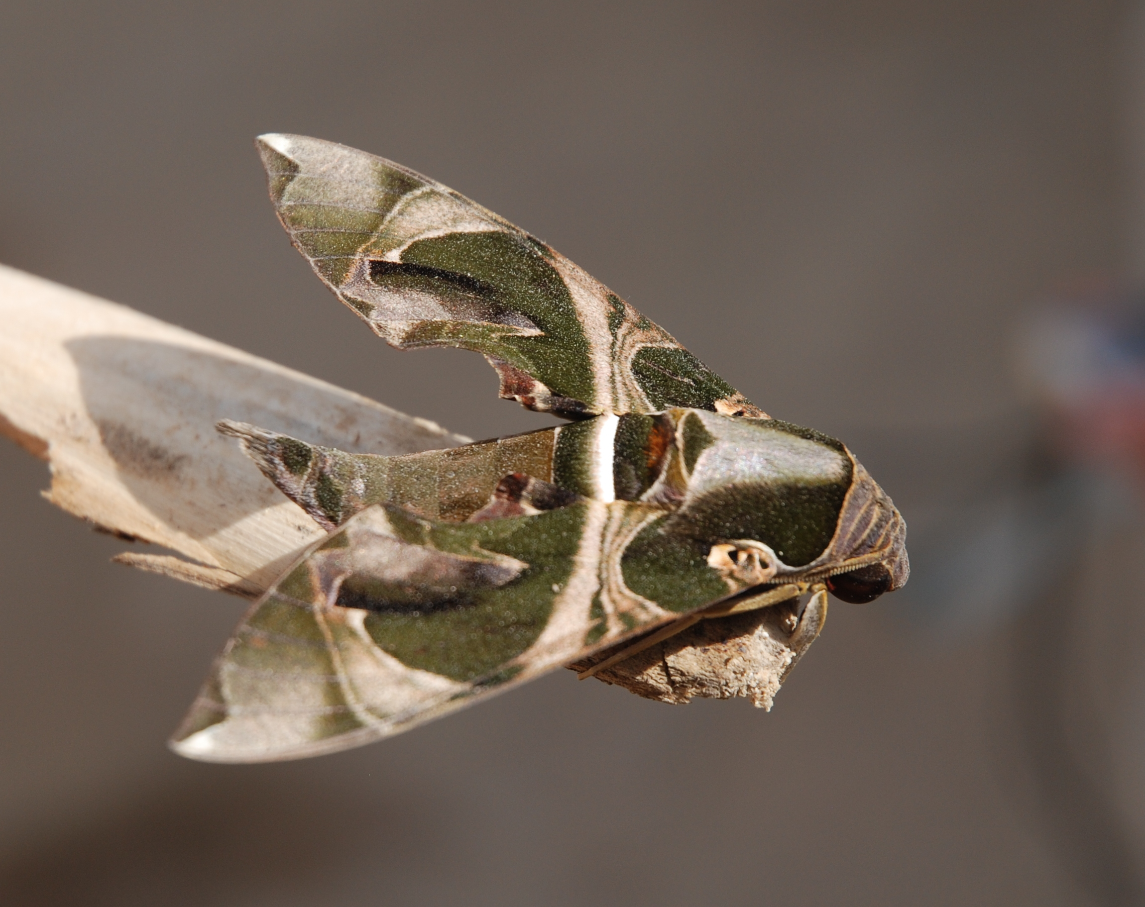 Daphnis hypothous